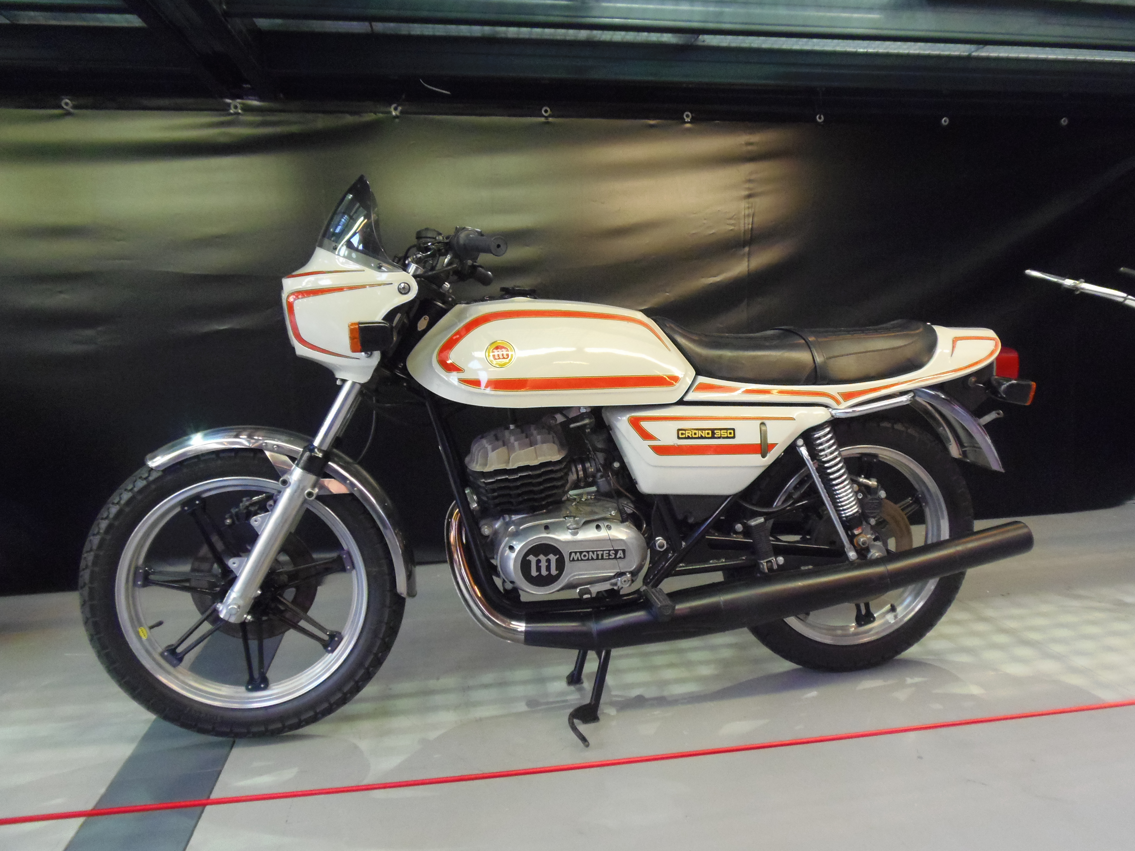 Montesa Crono 350, 1981